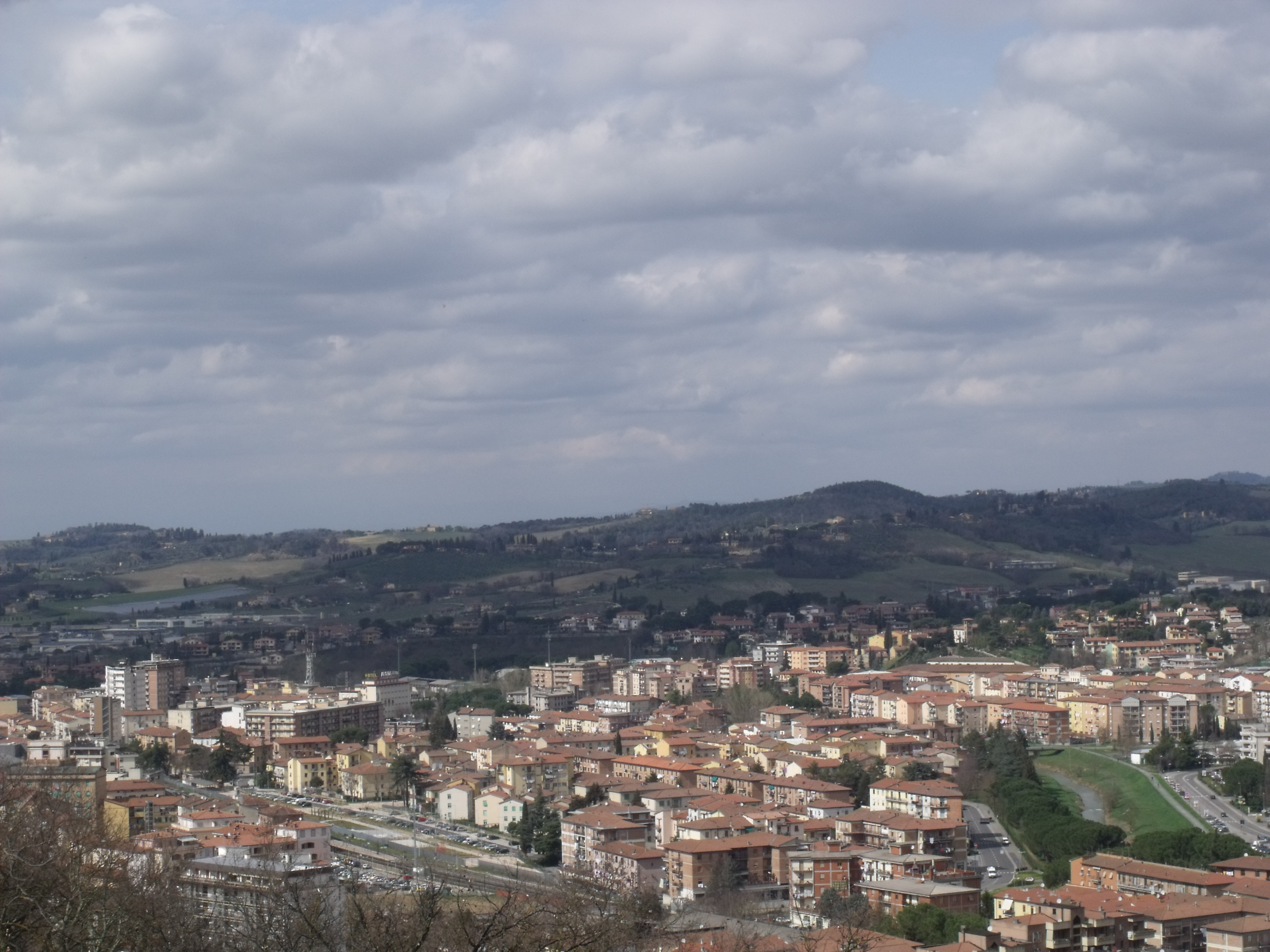 Panorama of Poggibonsi, seen from Fortezza Medicea, Province of Siena, Tuscany, Italy